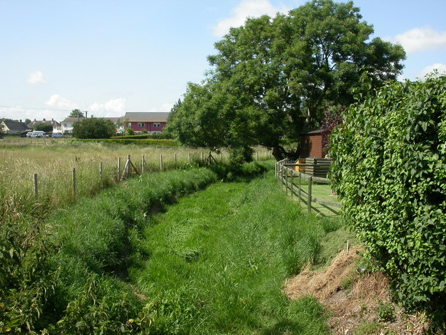 Winterborne Kingston, Winterborne River One of two Dorset rivers bearing this name, this is the North Winterborne. Winterbornes flow in winter, fed by aquifers, and often dry out in summer. They can often be distinguished by the aquatic or marginal vegetation growing in their dry beds in the summer.